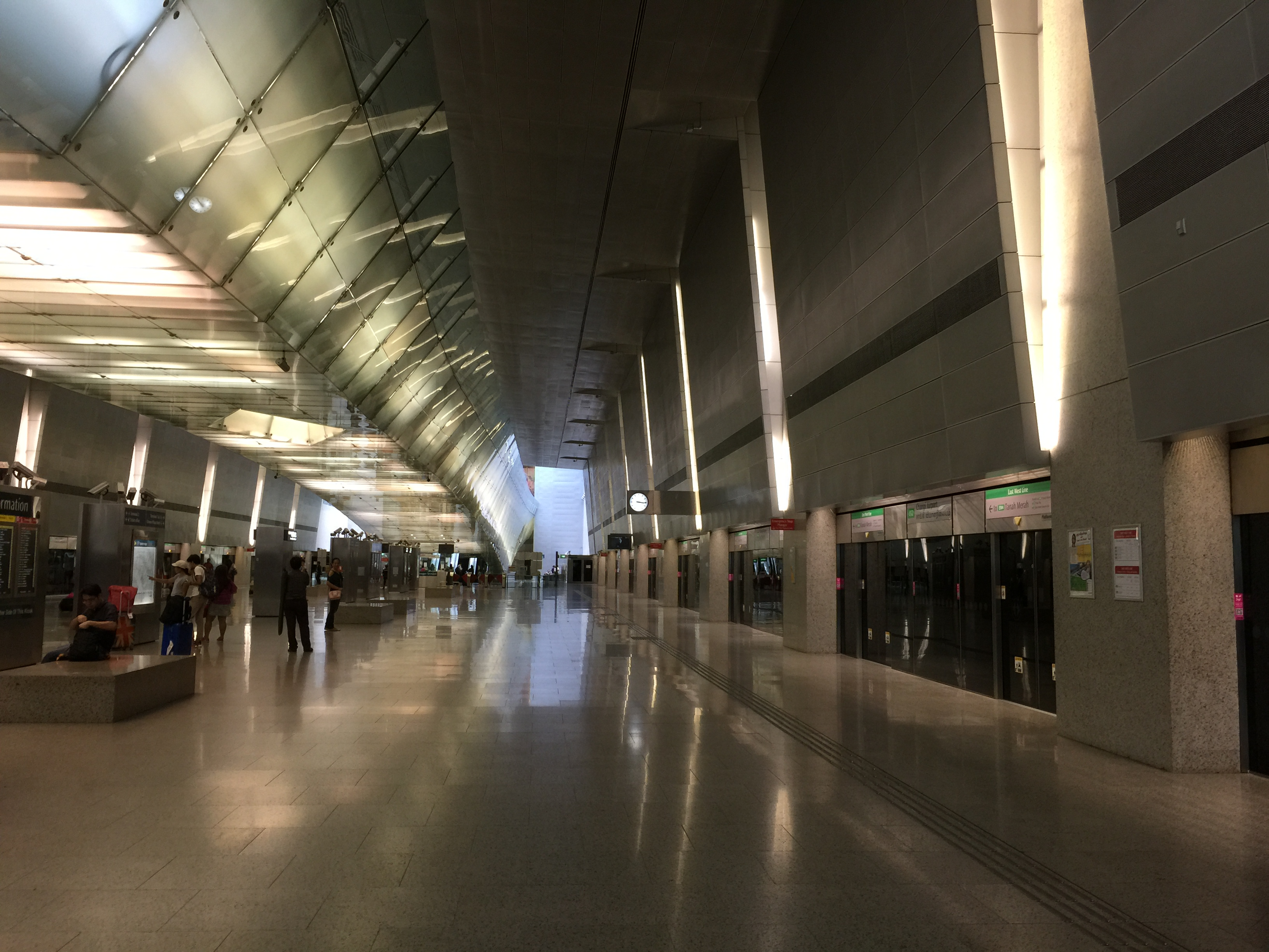 Changi Airport MRT Station - View from Platform A on the East West Line (Changi Branch).